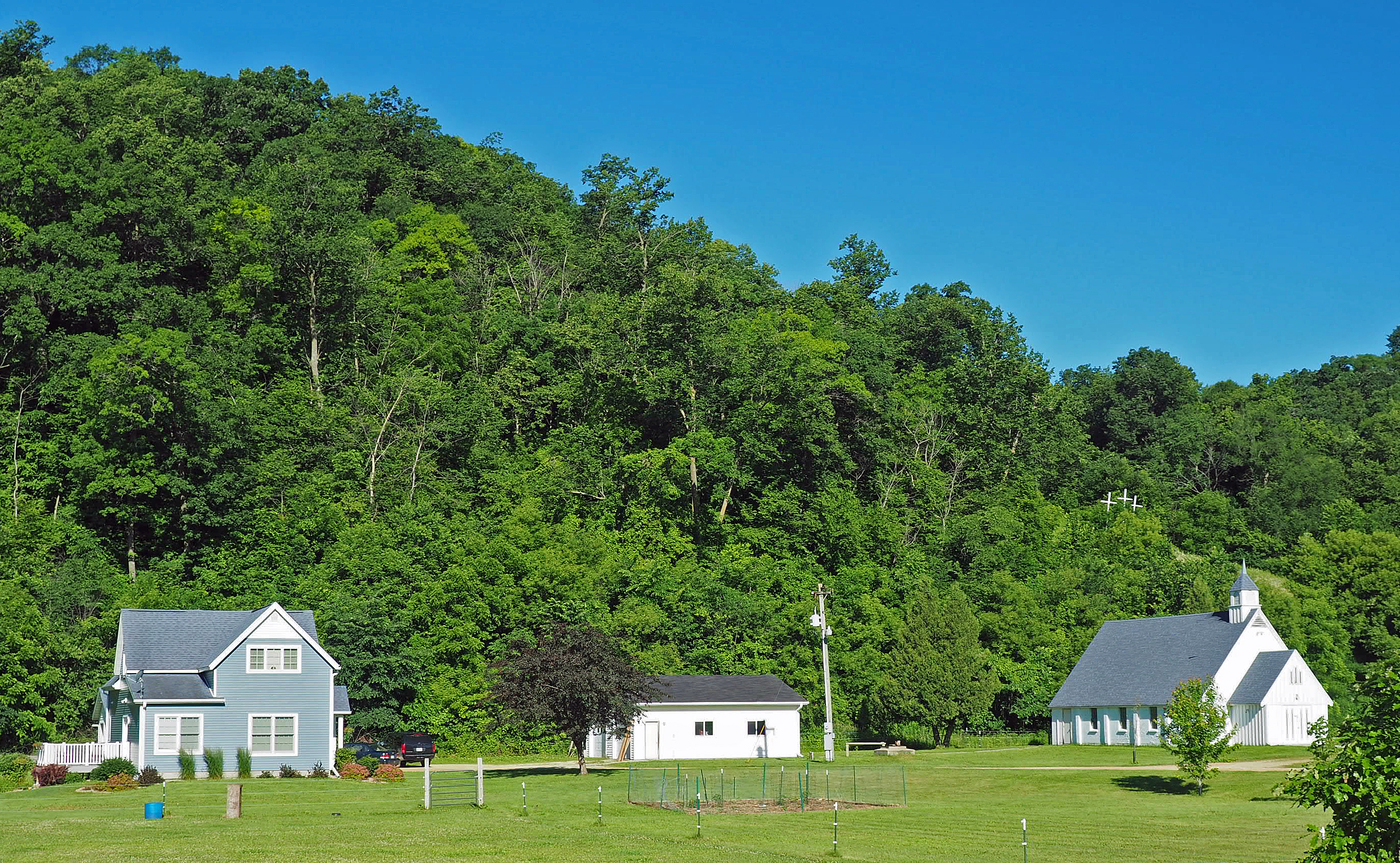 Woodville Chapel and nearby house, County Road 21, Mazeppa Township, Minnesota, USA. Viewed from the east.